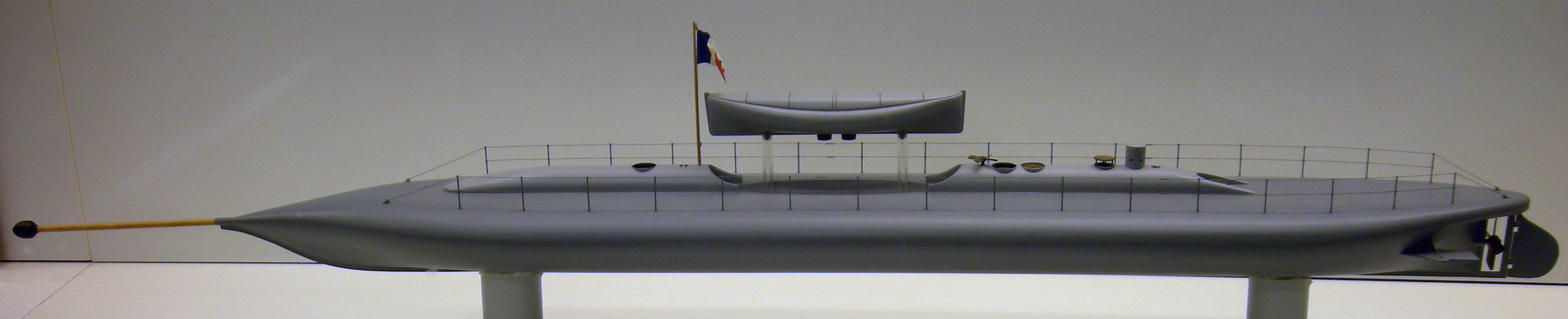 Model of the French submarine Plongeur at display at the Deutsches Museum in Munich. This model shows the submarine’s lifeboat detached.